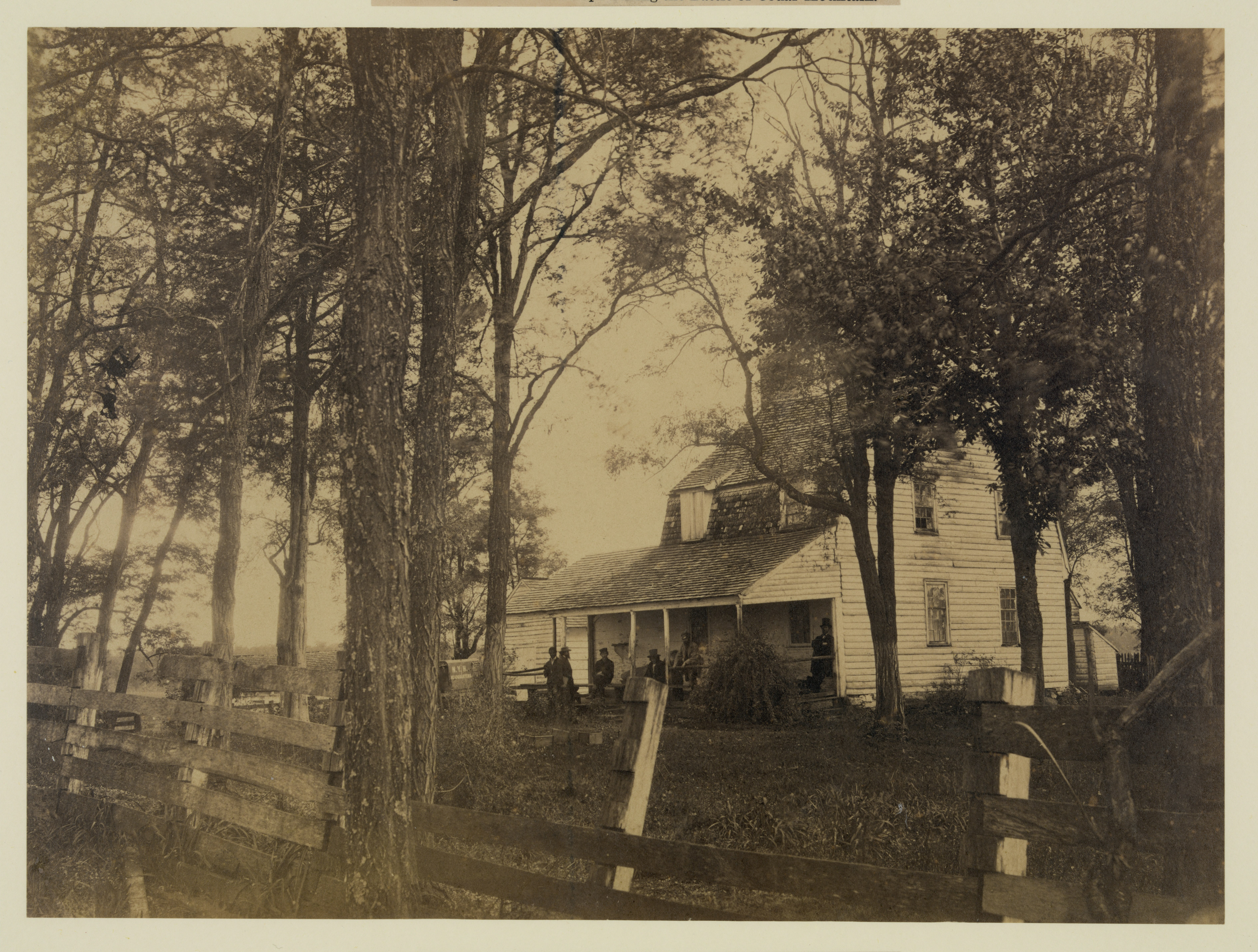 Title: Residence of Mr. Hudson, headquarters of Gen. Pope during the battle of Cedar Mountain Abstract/medium: 1 photographic print : albumen.